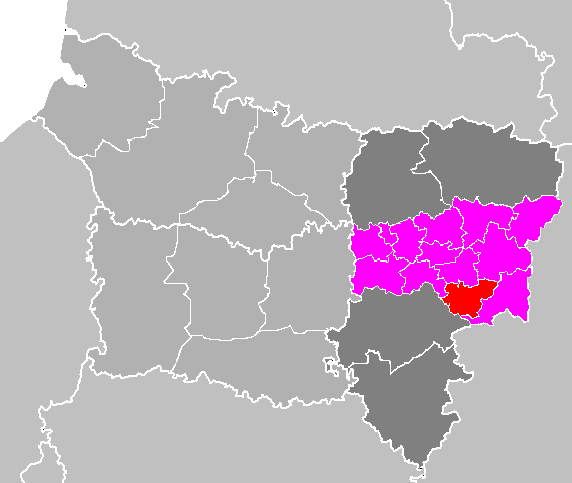 Maps of arrondissements and cantons of France: Arrondissement de Laon